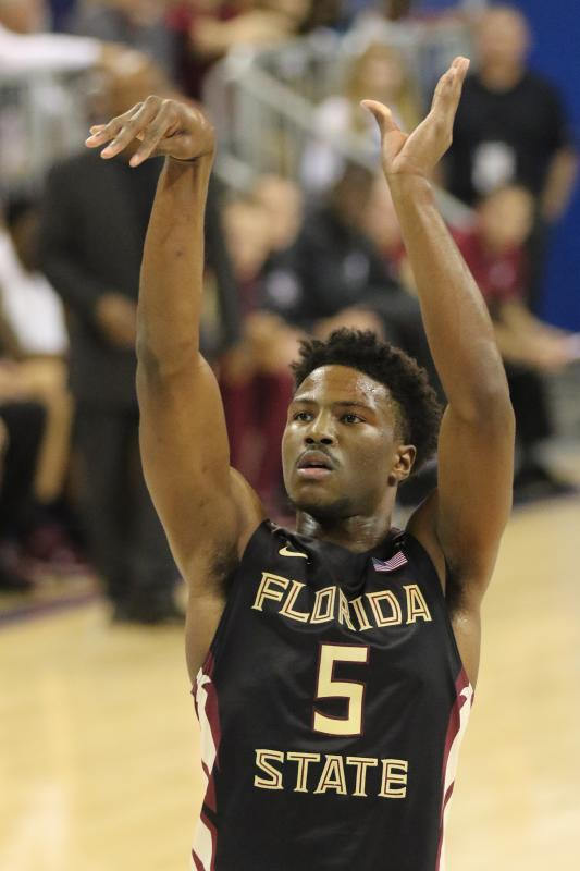 Florida Gators vs Florida State Seminoles Basketball 2015/12/29, Gators Lose 71-73